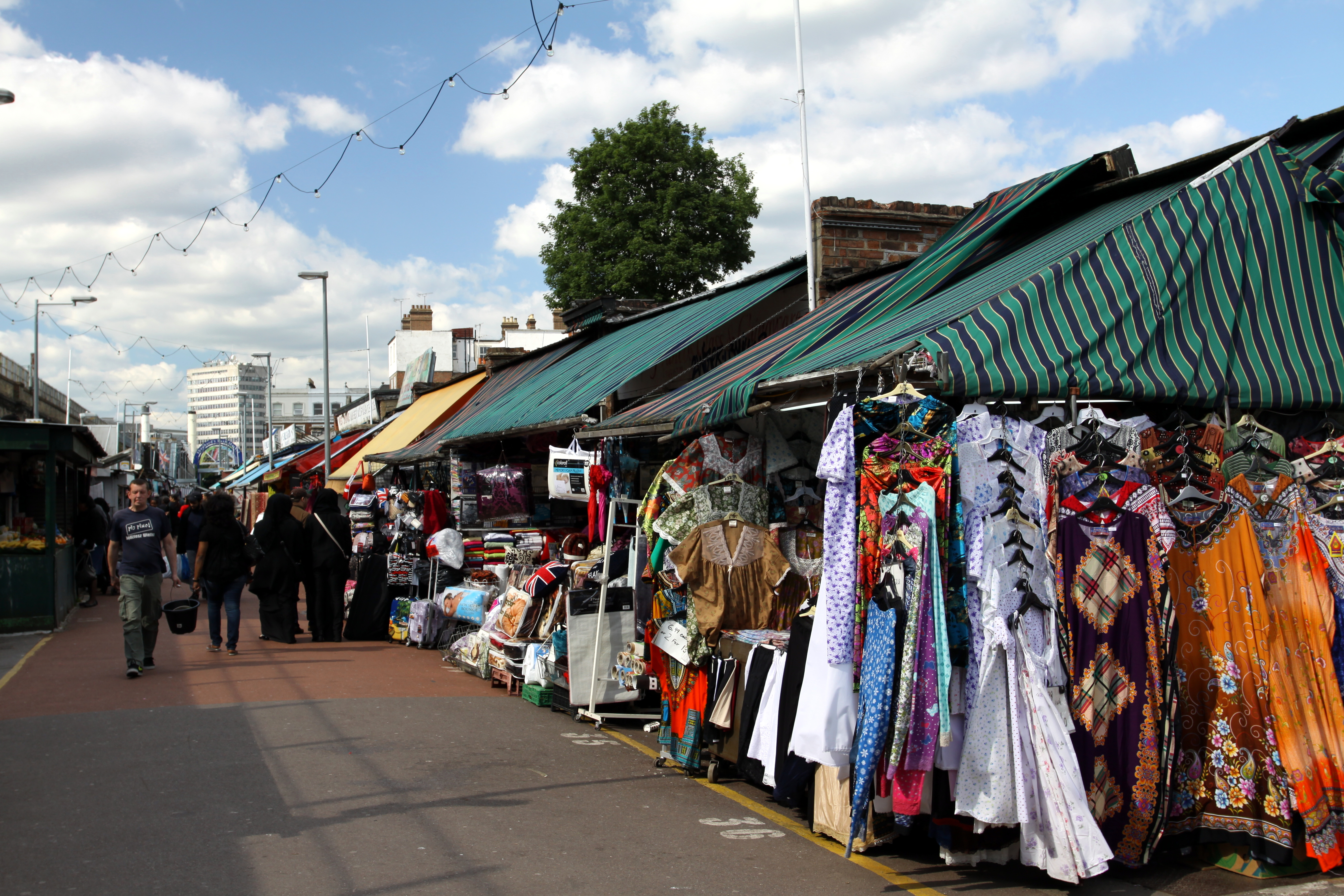 Shepherd's Bush Market in London Borough of Hammersmith and Fulham, London, England, Great Britain The making of this file was supported by Wikimedia UK.